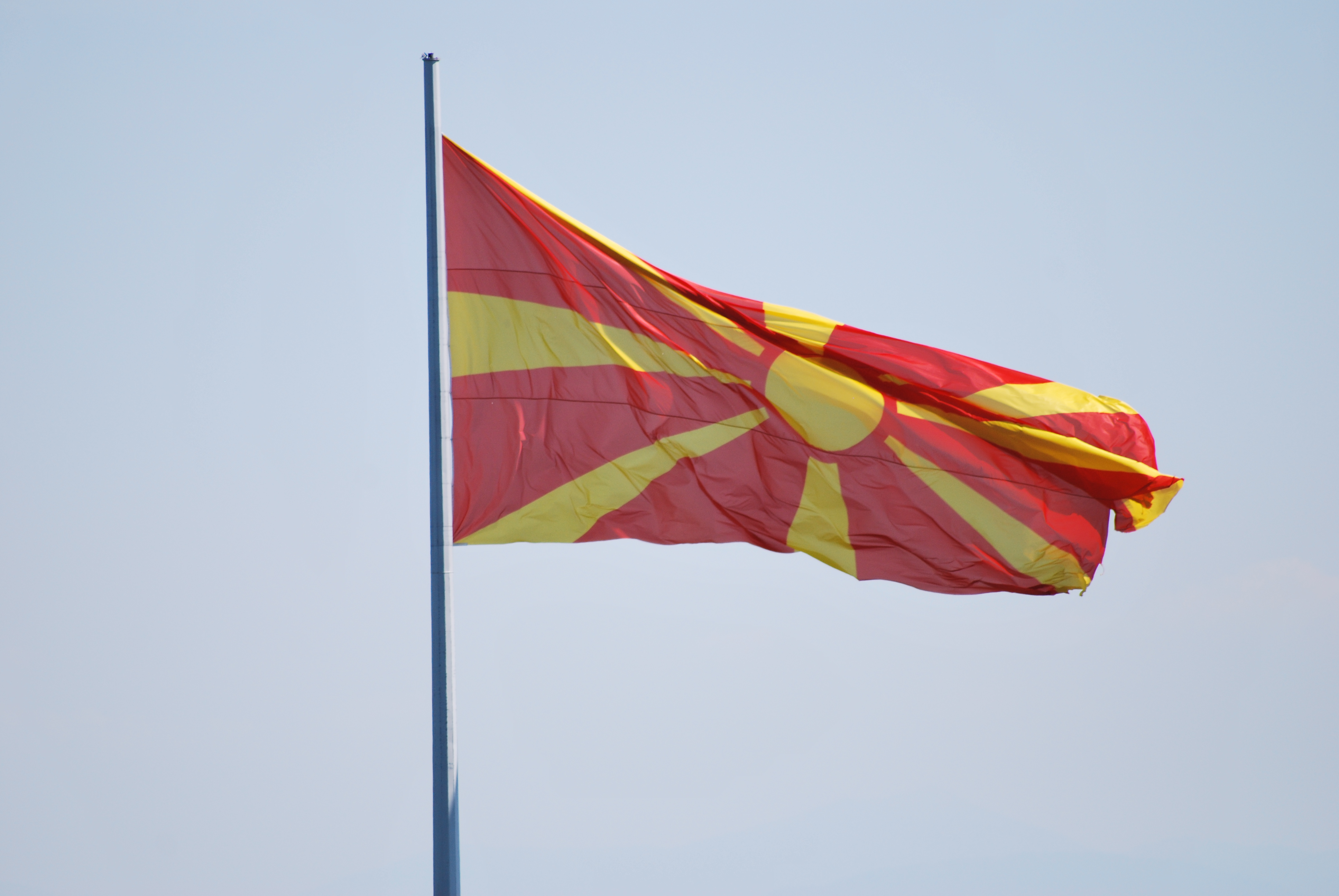 Vršnik Cross over Kruševo, Macedonia